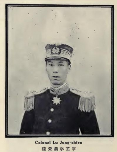 Lu Rongjian (1878-？)